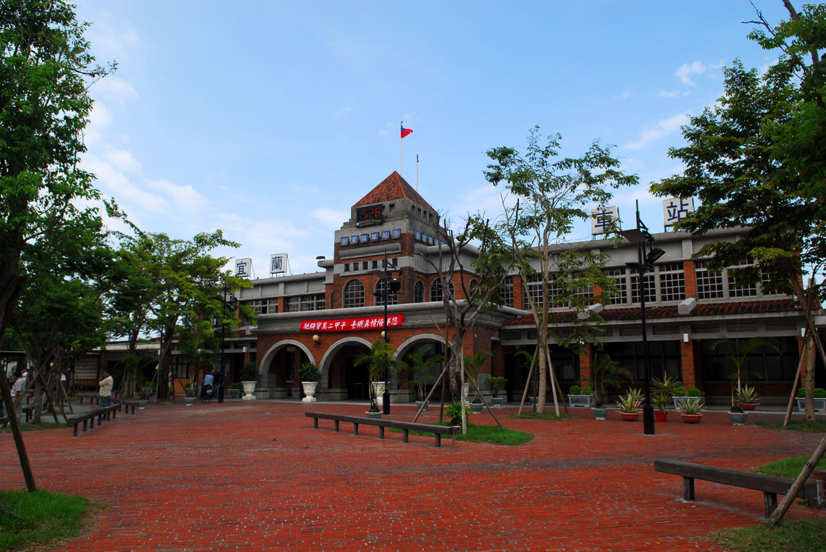 Yilan Station is a major train station of Yilan Line, part of Taiwan's eastern rail line. It's the central station of Yilan City, the county seat of Yilan, and one of the biggest train station in Taiwan's east coast.